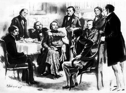 Meeting in Belinsky house.